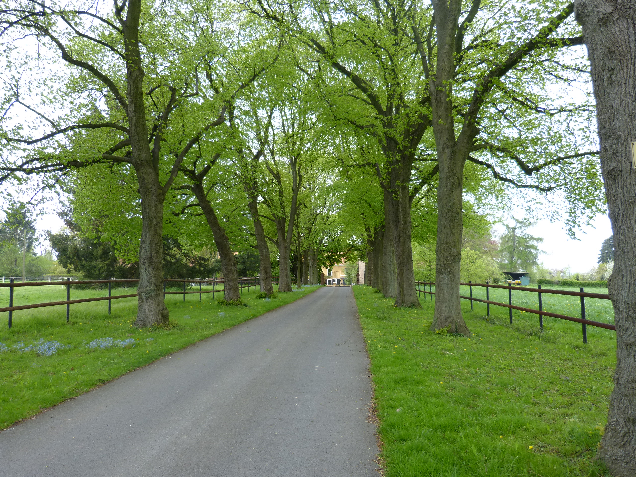 Allee zum Haus Kotten